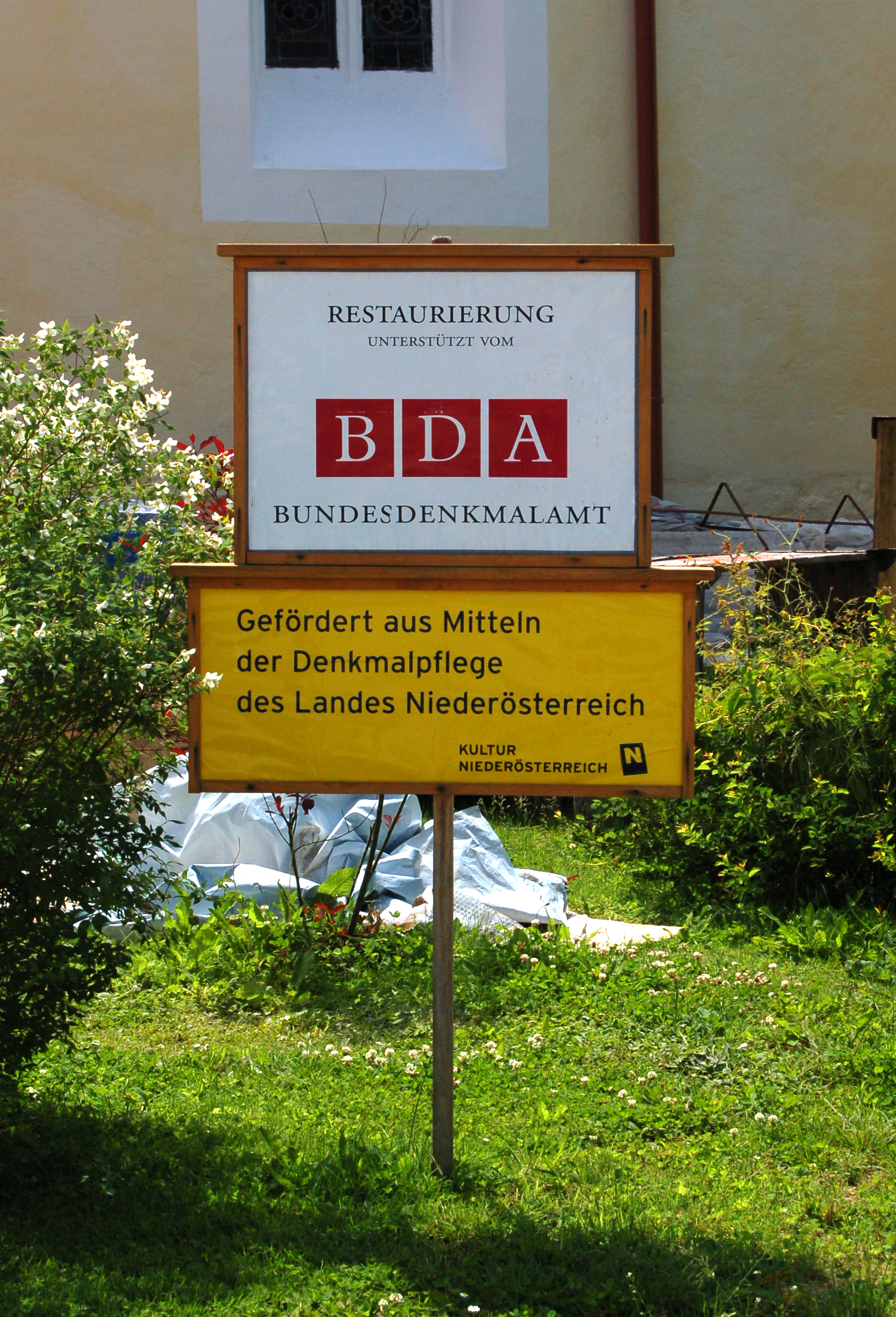 Bundesdenkmalamt and Land Niederösterreich working together in restaurating the church in Idolsberg, municipality Krumau am Kamp, Lower Austria.